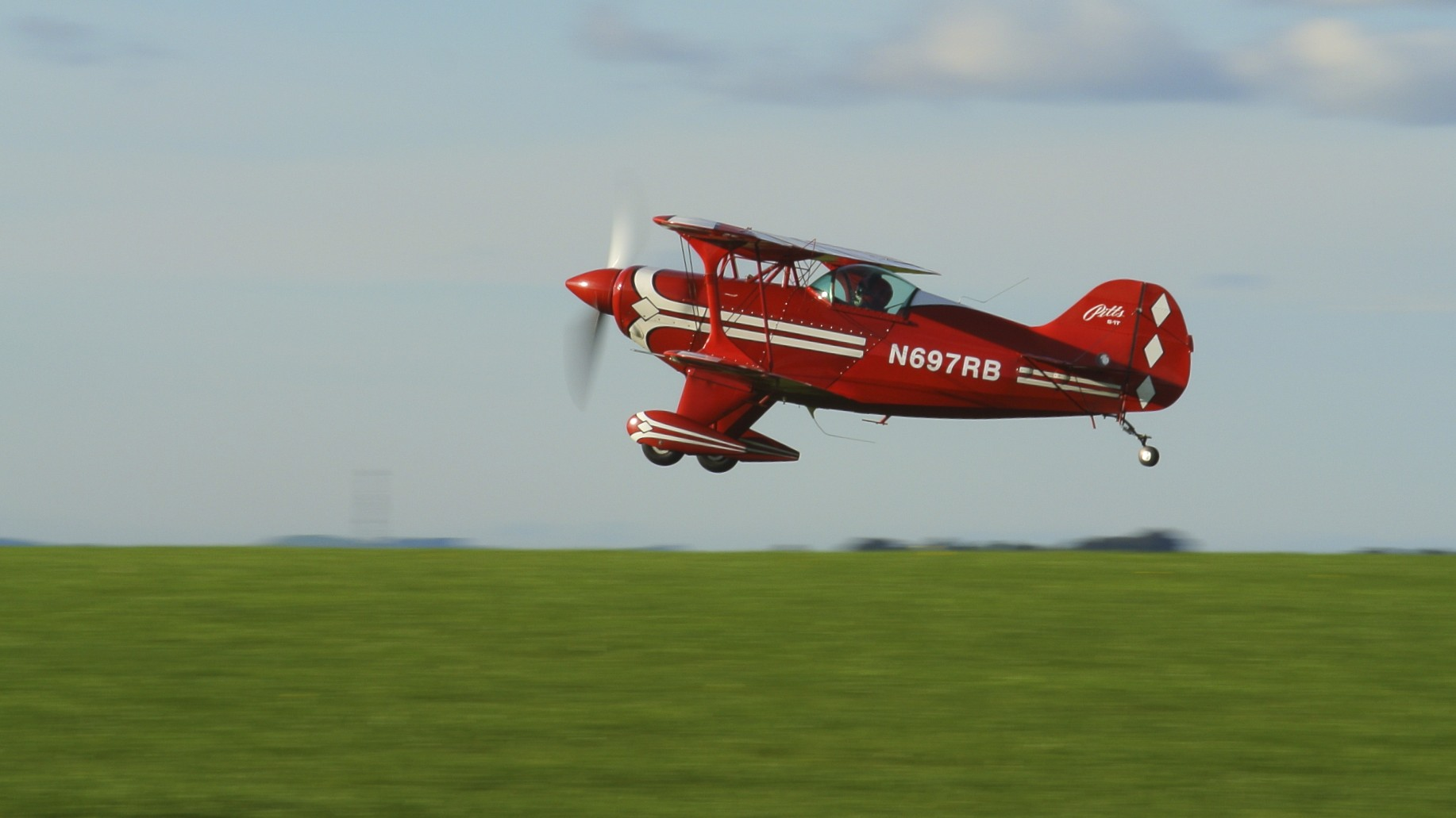 It was surprisingly busy today, I expect the sunshine and excellent Cafe had something to do with it! I was trying out my Nikon V1 at the airfield, it proved itself a handy little camera for panning shots at slow speeds.